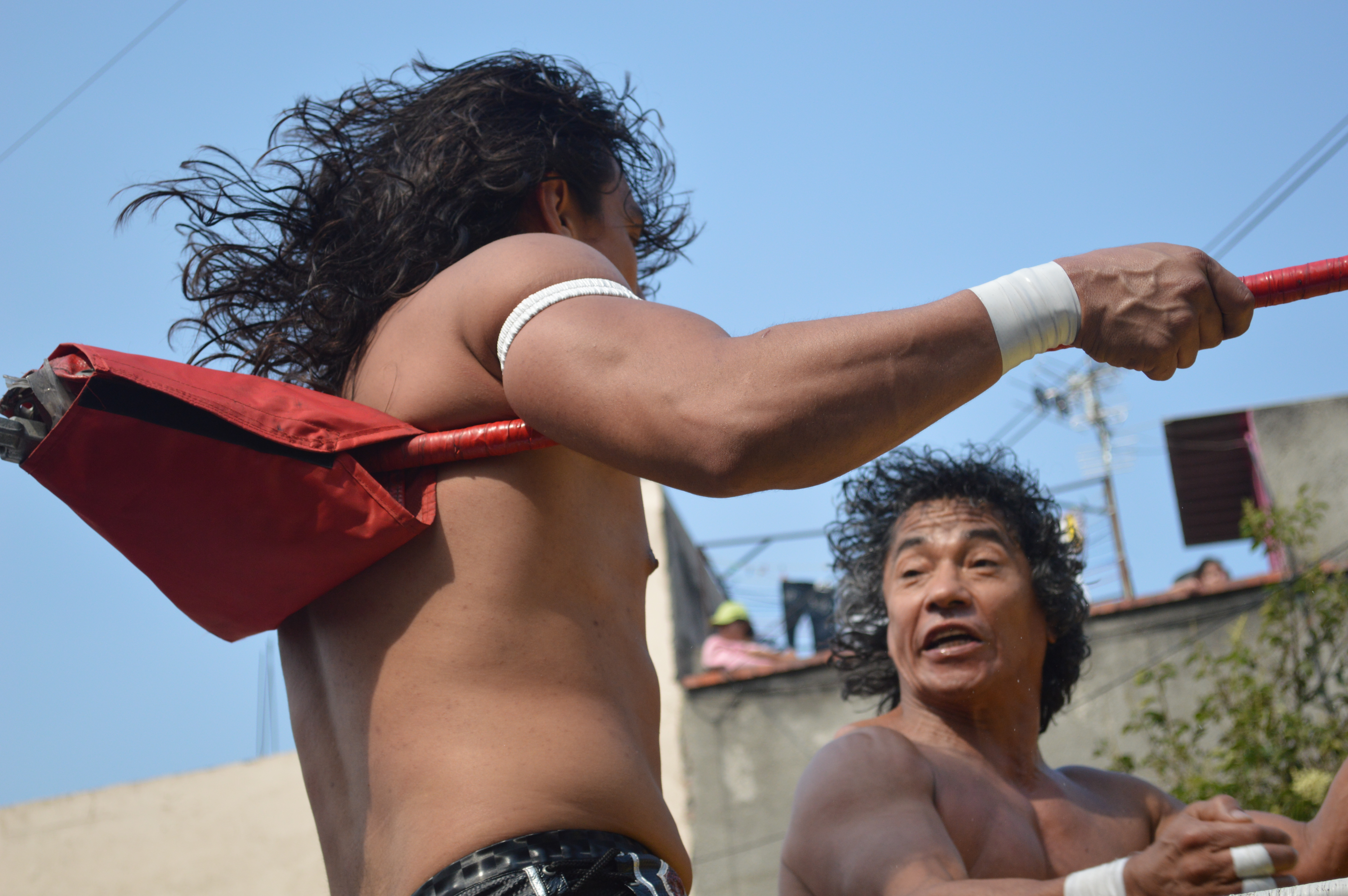 Canelo Casas and Negro Casas at CMLL lucha libre event part of Festival Día de Reyes Territorial Obrera Doctores in Mexico City